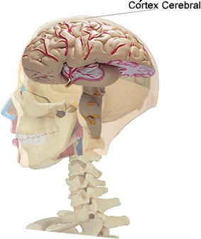 Location of the Cerebral Cortex